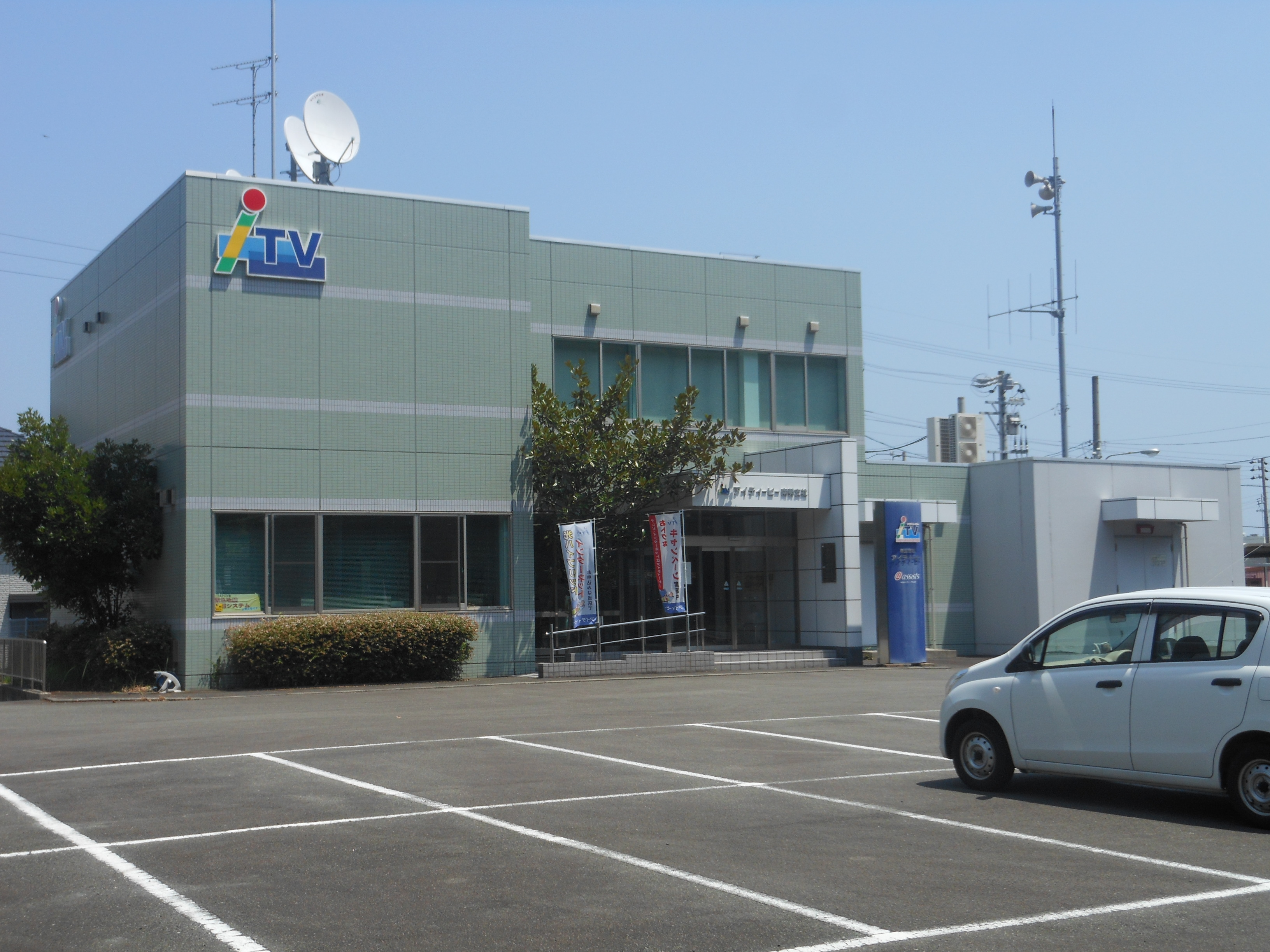 This is a Cable Television Studio in Shima, Mie, Japan.